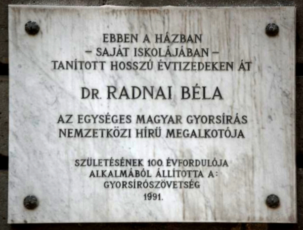 Béla Radnai commemorative plaque in Budapest District V, Egyetem Square No 5.